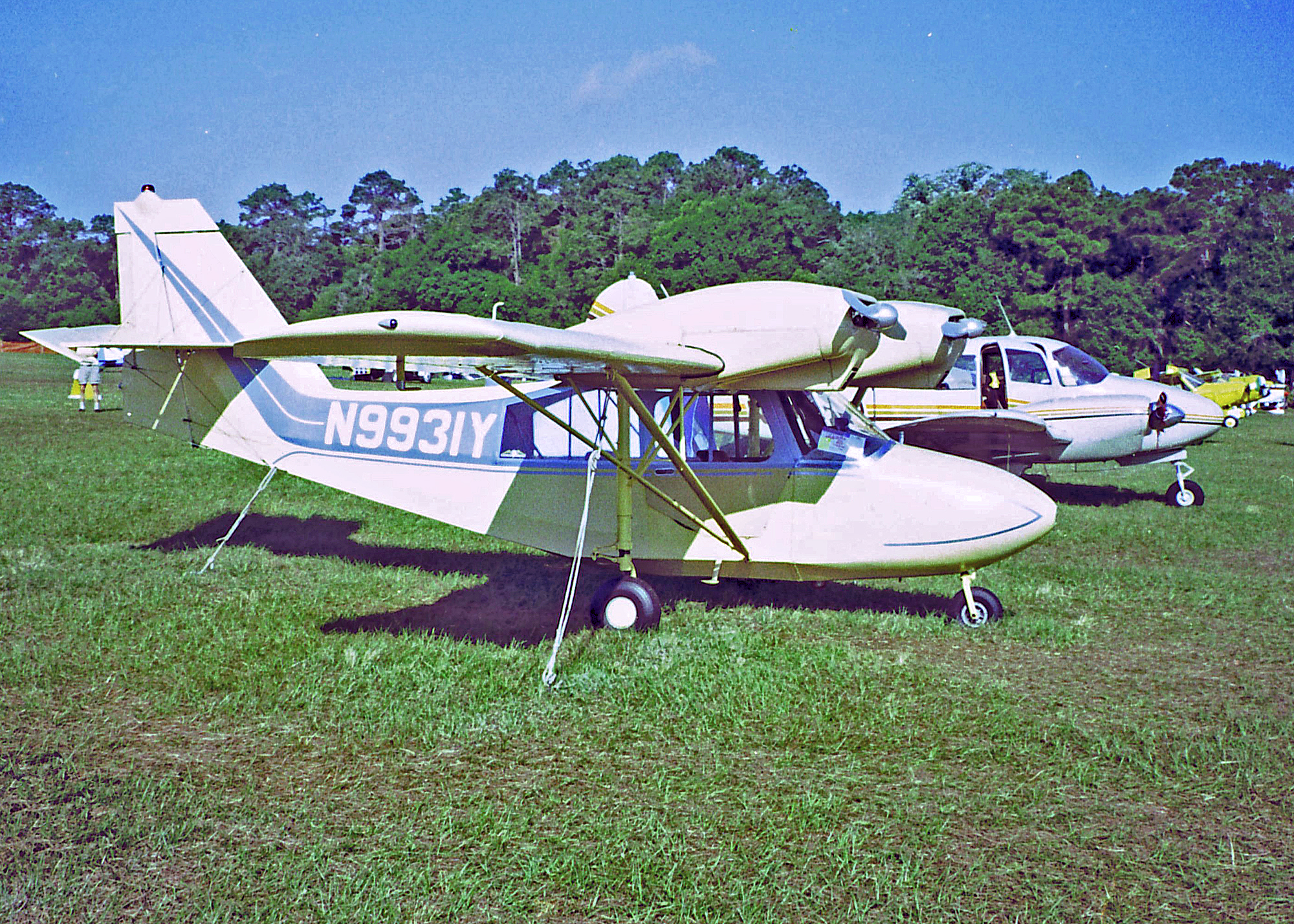 Champion Lancer, Sun-n-Fun 2003, Lakeland, Florida